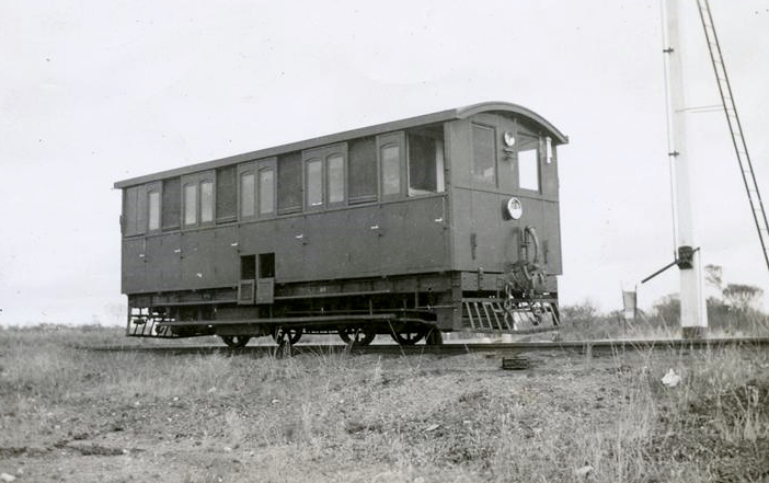 A three quarter view of WAGR AO class petrol railcar no. 431, in the Kalgoorlie/Boulder area, Western Australia. The photo was taken at some time between 1937, when the railcar was transferred from Albany to Kalgoorlie/Boulder, and 1950, when it was written off.